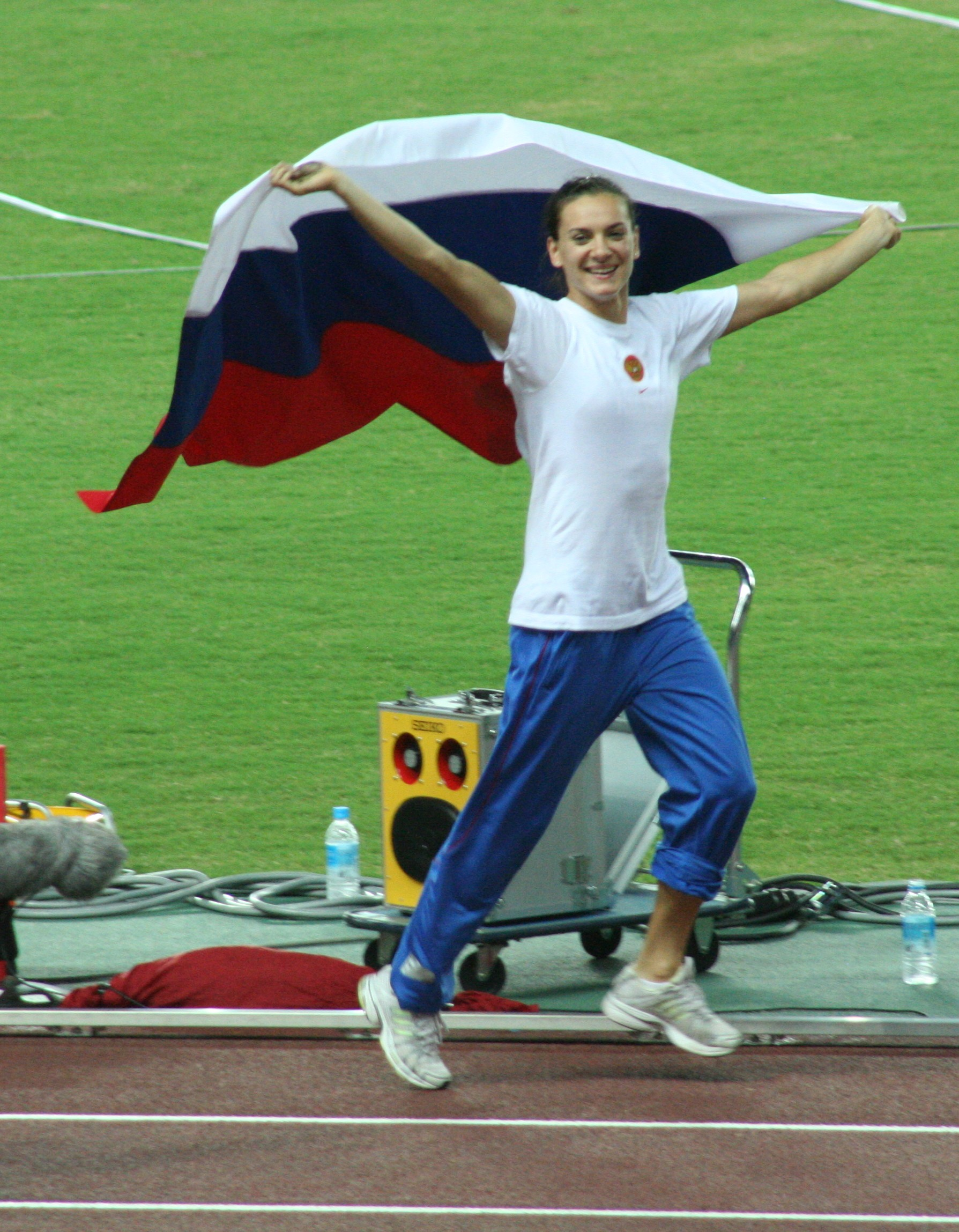 World Athletics Championships 2007 in Osaka - Women's Pole vault winner Yelena Isinbaeva celebrating